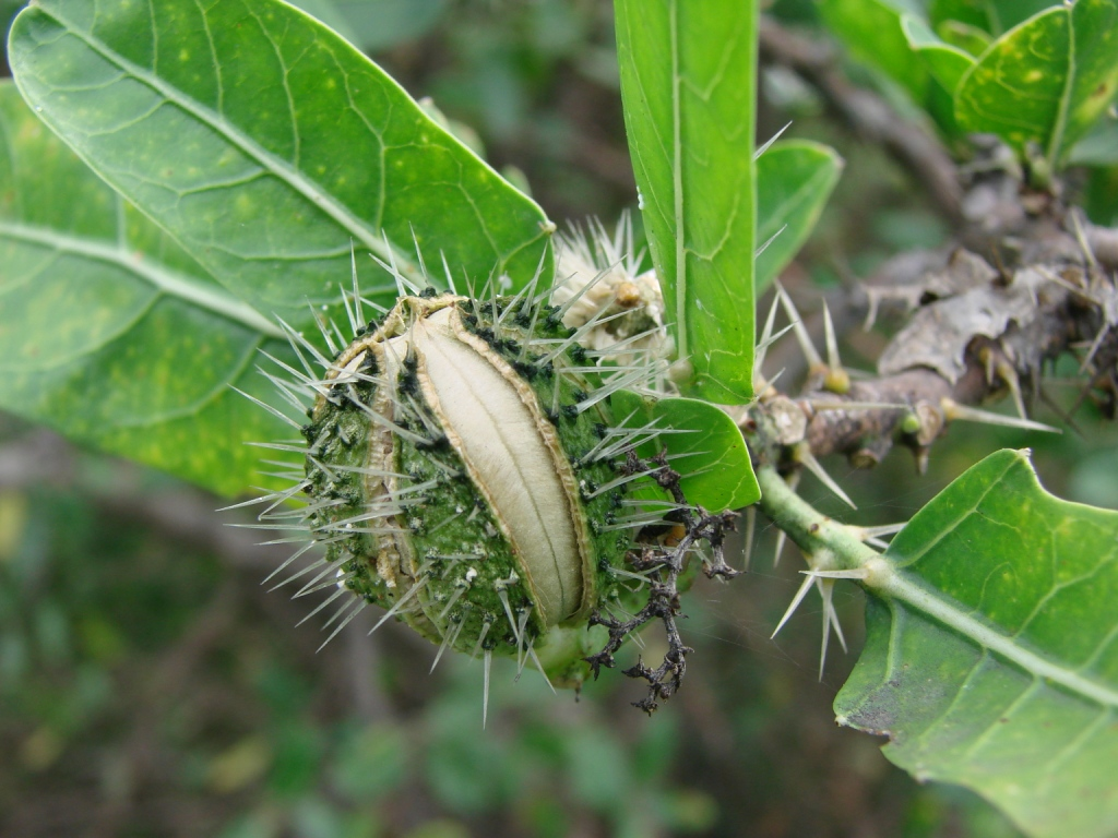 seed of Cnidoscolus phyllacanthus - EUPHORBIACEAE - BR 242 - Cristópolis - Bahia - Brasil.